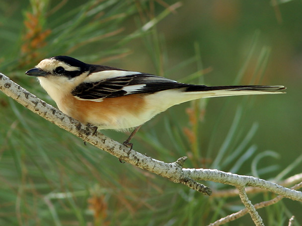 Lanius nubicus male, photographed in Turkey